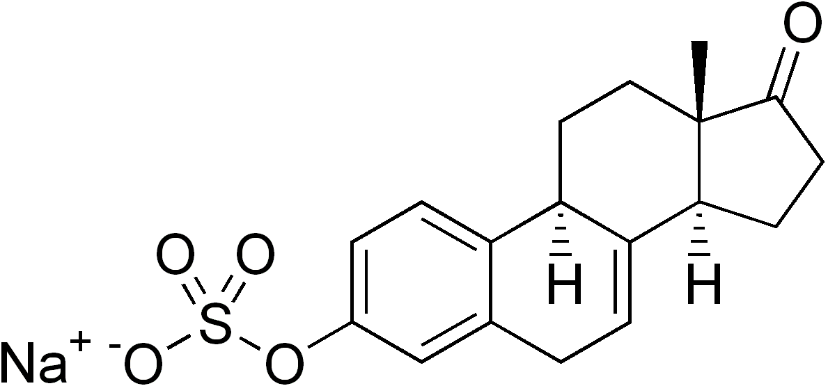 chemical structure of the sodium salt of equilin sulfate, one of the constituents of premarin